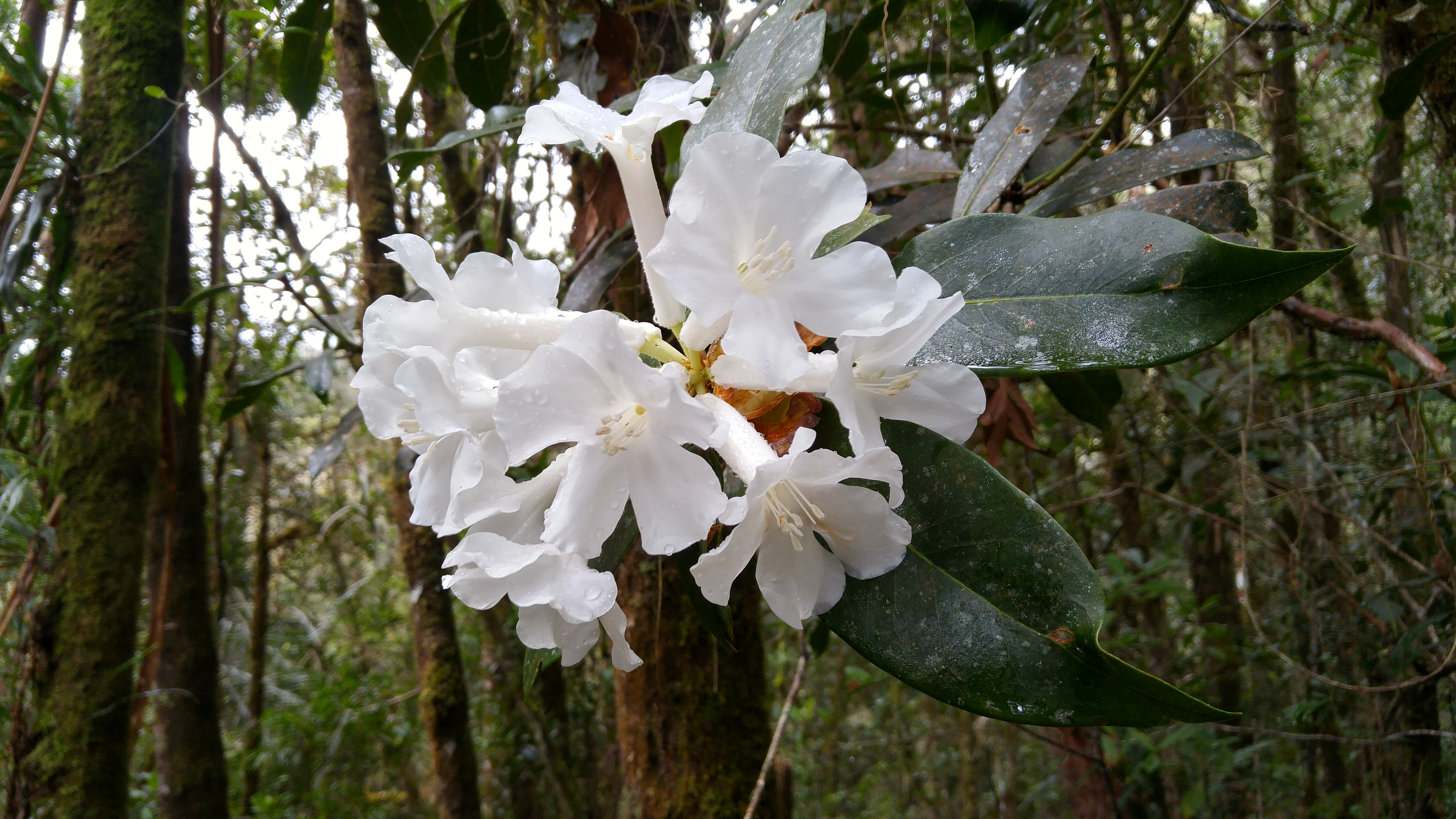 White rhododendron in Latimojong Forest in South Sulawesi